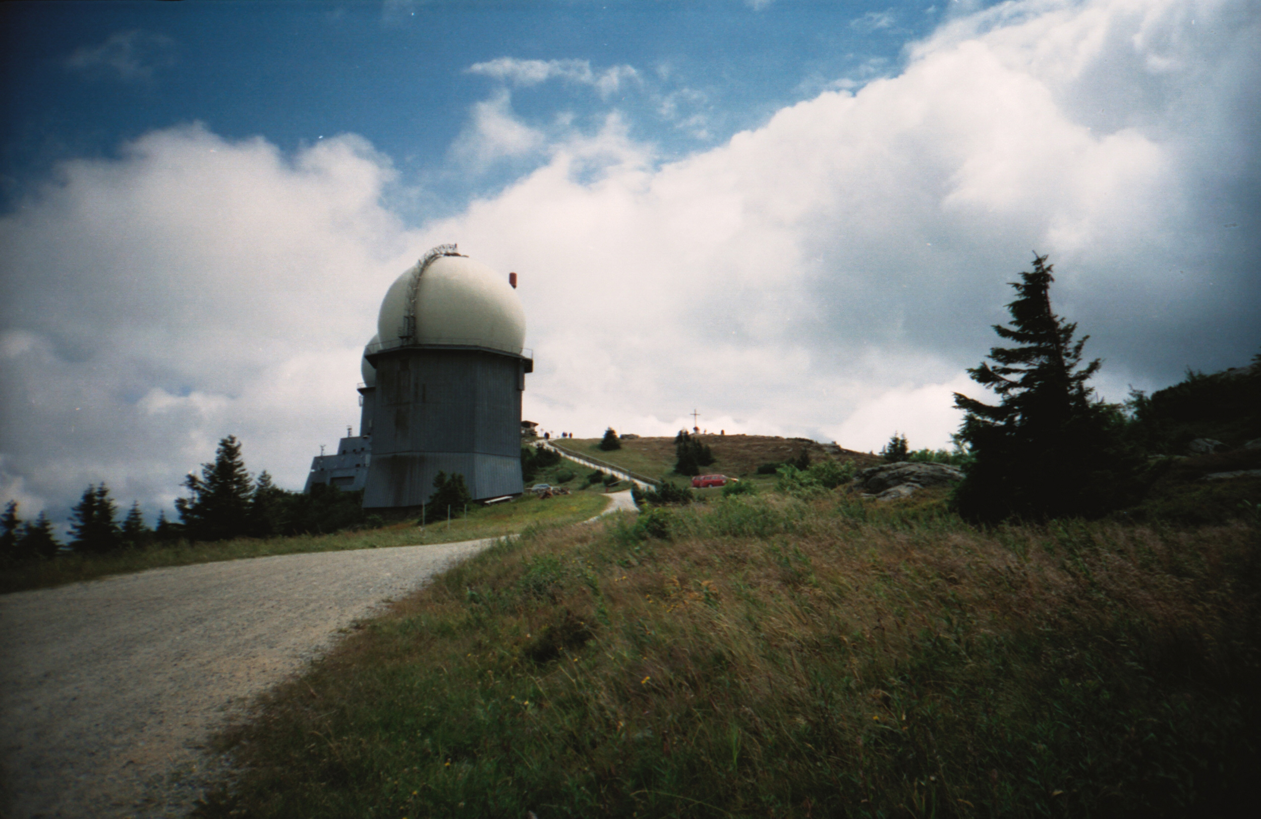 Top of the Großer Arber, the two radar stations on the left